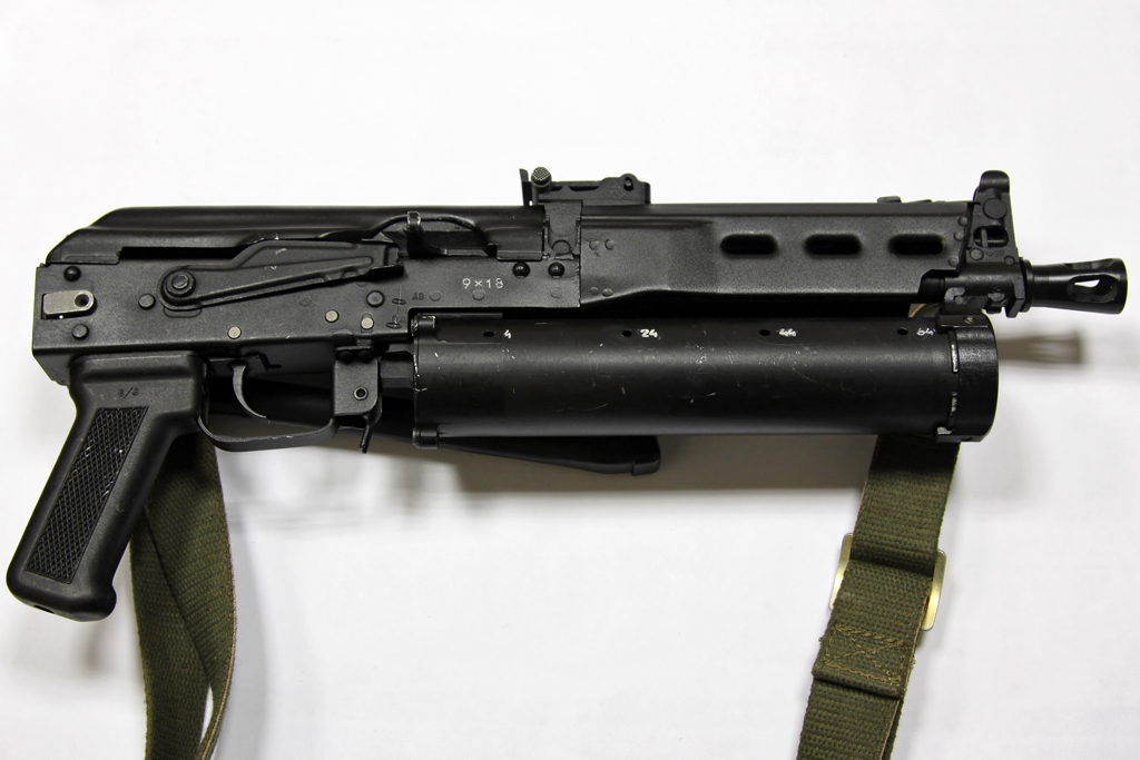 9mm submachine gun PP-19 Bizon right side view with folded buttstock.